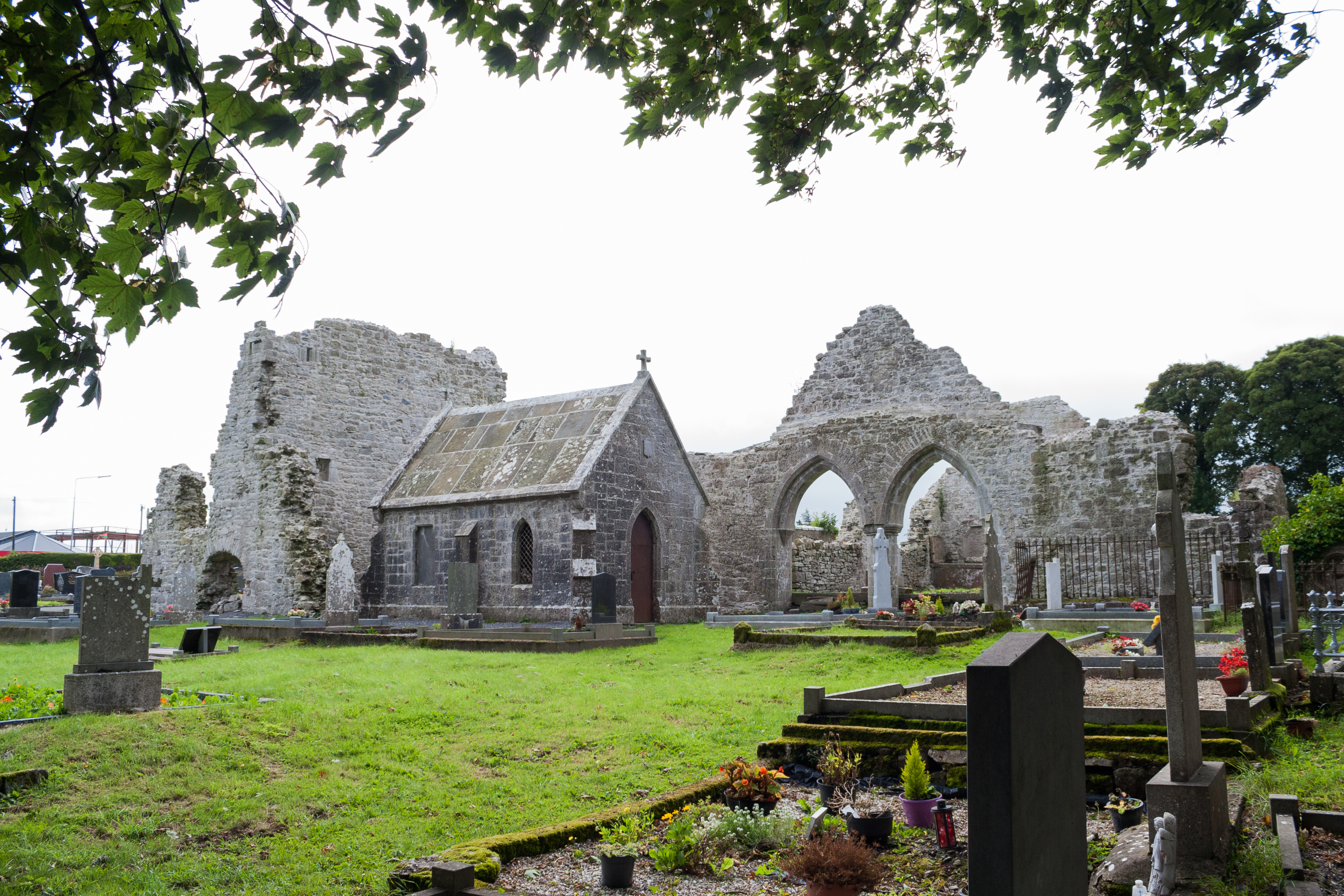 North view of St. Patrick's Priory with the tower house on the left and the two arches leading to the south transept on the right.